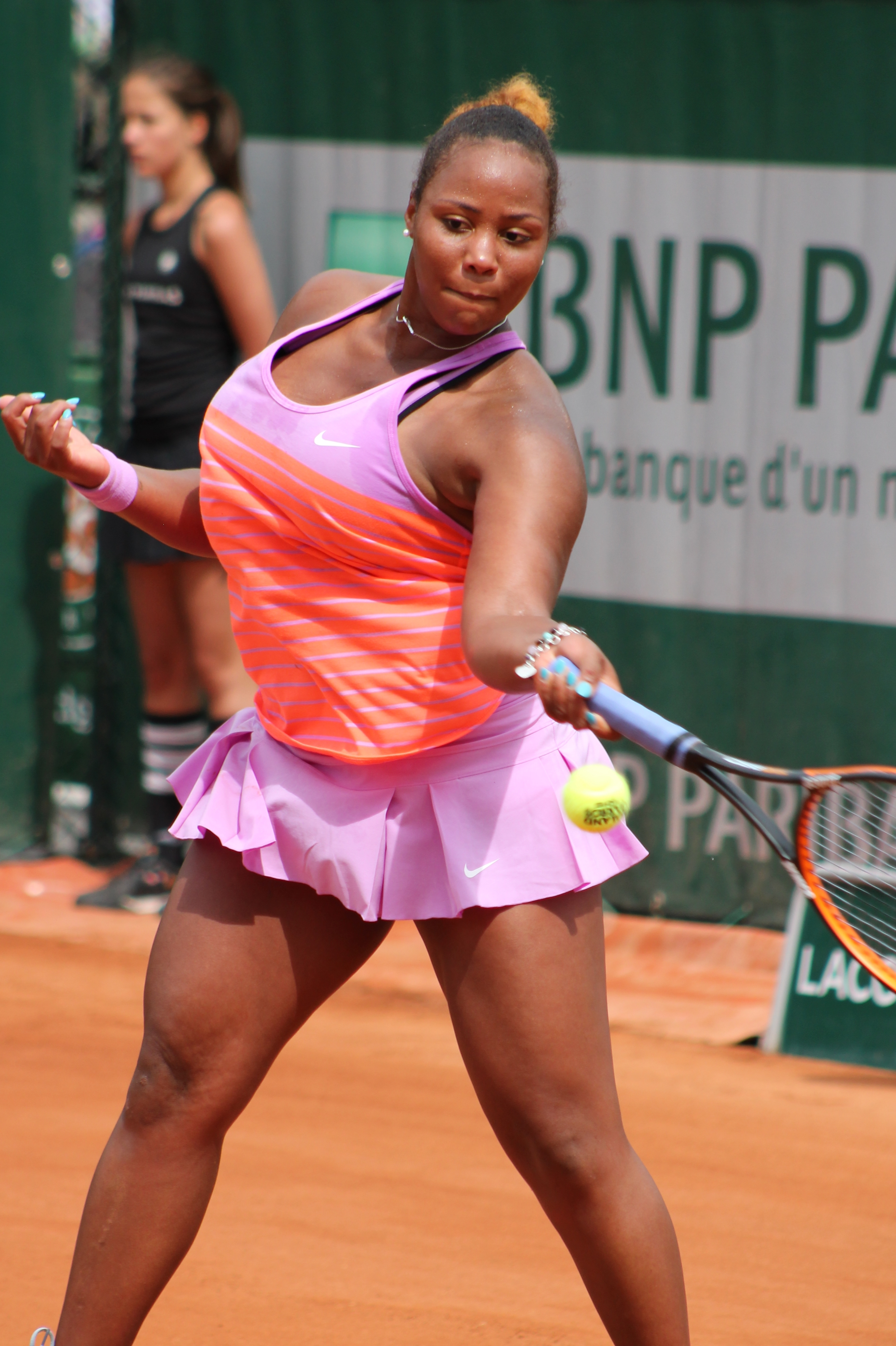 Townsend RG15 (5)